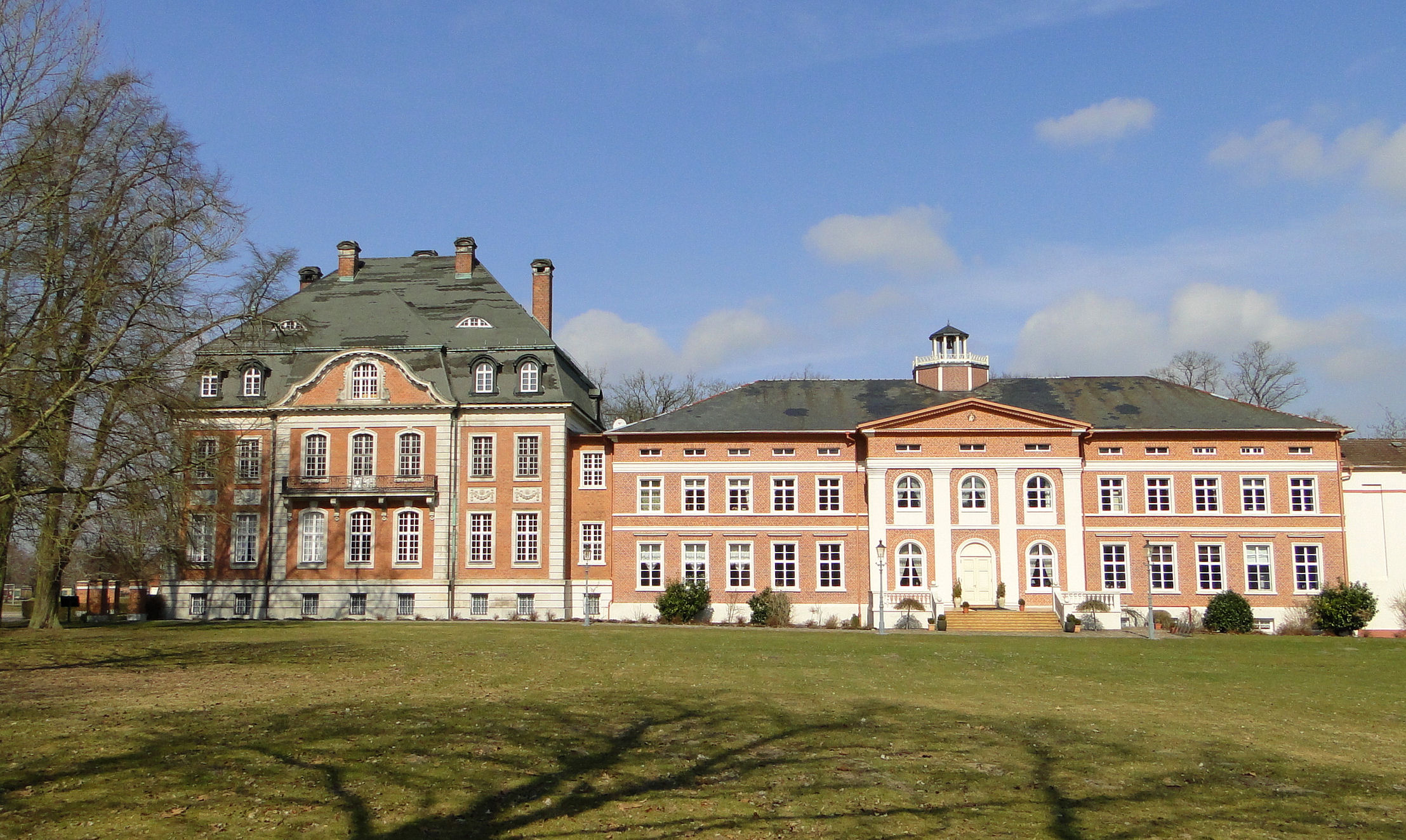 Manor house (Castle) in Karow, district Parchim, Mecklenburg-Vorpommern, Germany